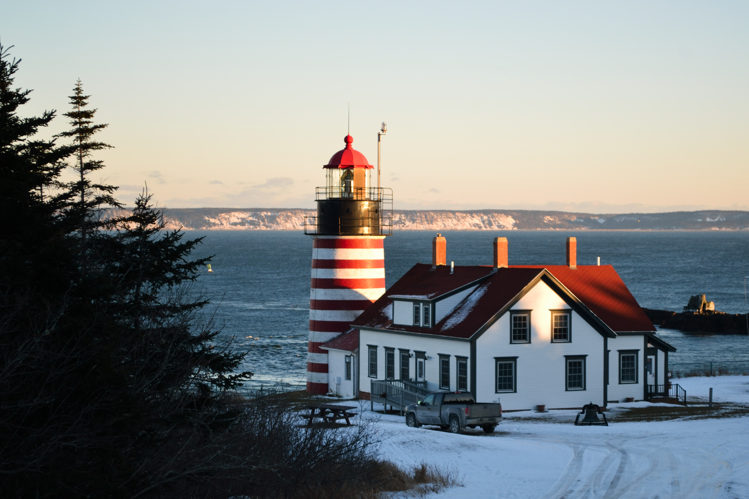 West Quoddy Head Light Station at sunset.